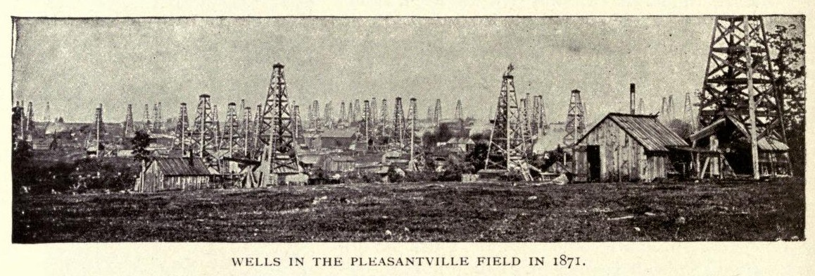 Illustration from the book Sketches in crude-oil; some accidents and incidents of the petroleum development in all parts of the globe, ... 3rd Edition. by McLaurin